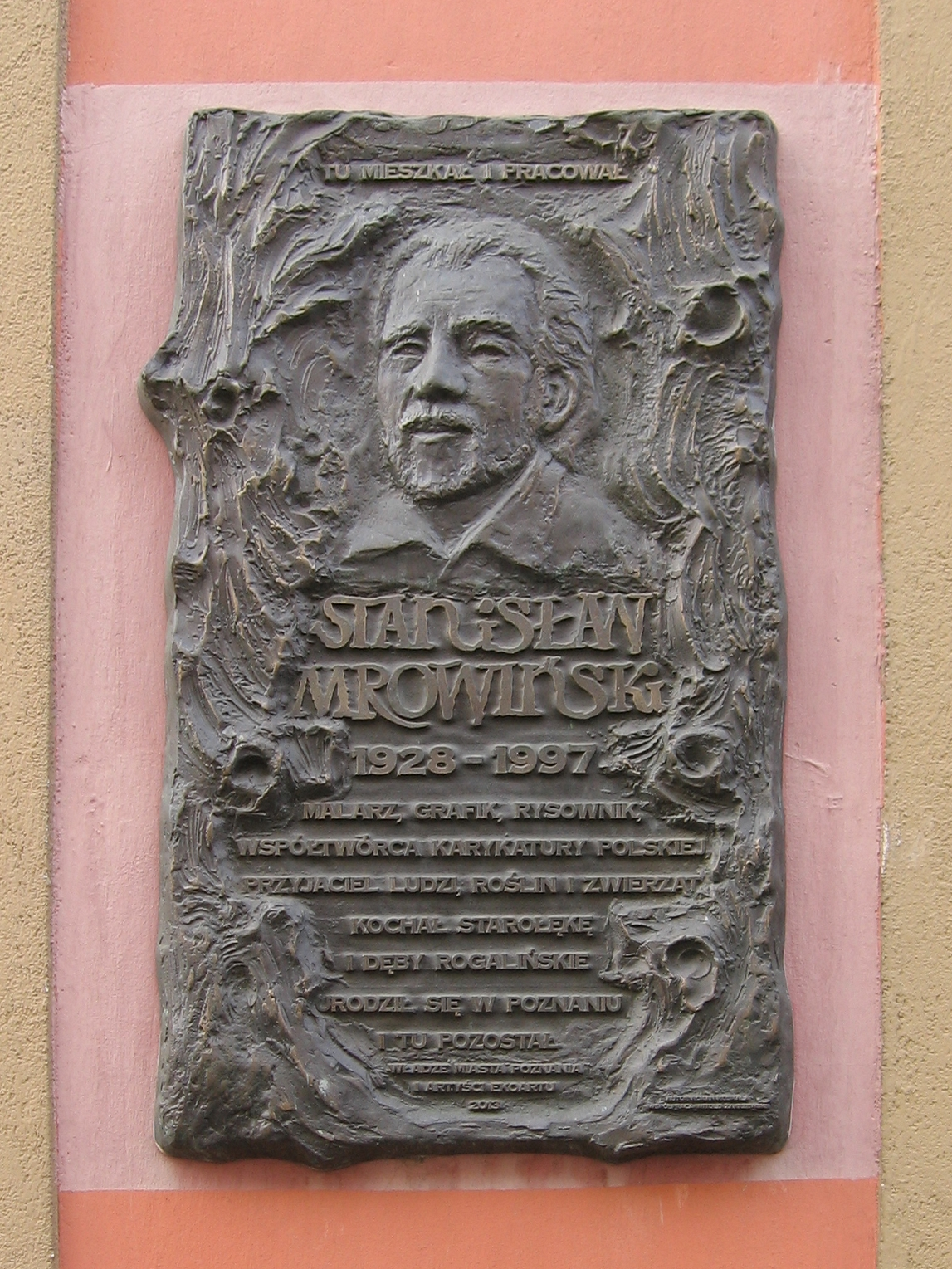 The commemorative plaque in memory of Stanisław Mrowiński on the wall of the building in Poznań, Wodna 17/19 street, Poland.